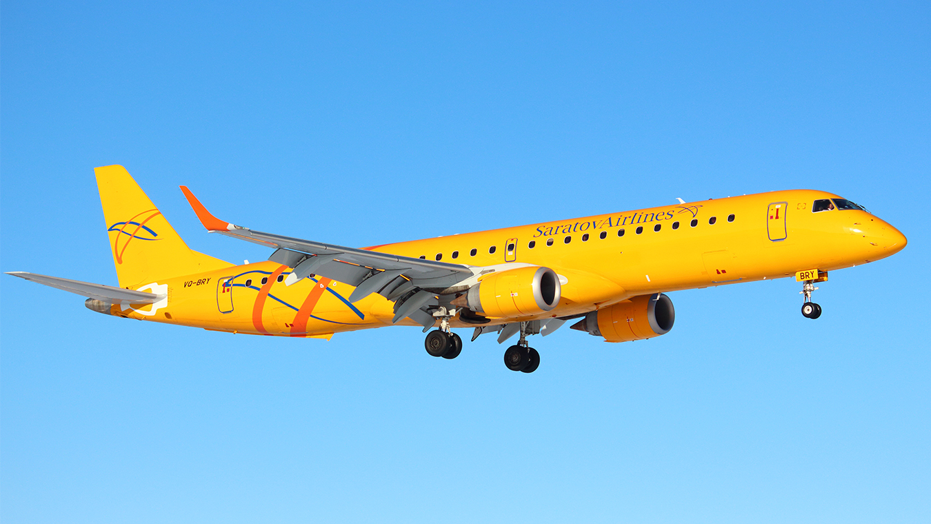 Saratov Airlines ERJ-195 (190-200) VQ-BRY